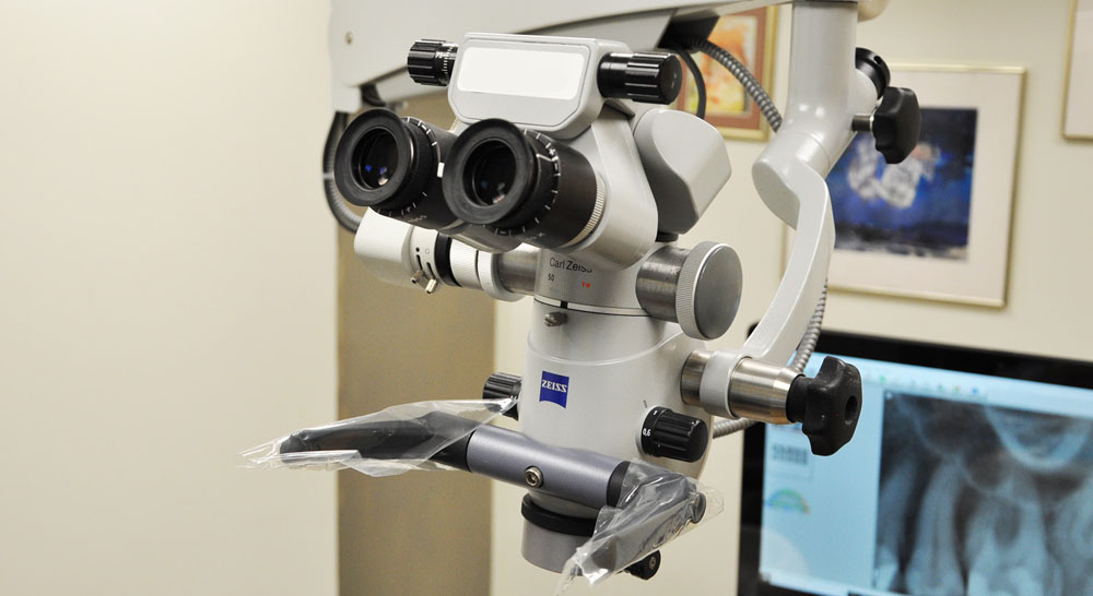 endodontics microscope Zeiss in dental office